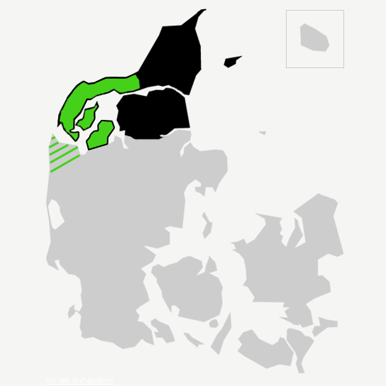 Map showing the geographic structur in the North of Denmark: North Jutland (Nordjylland), Northwest Jutland (Nordvestjylland)